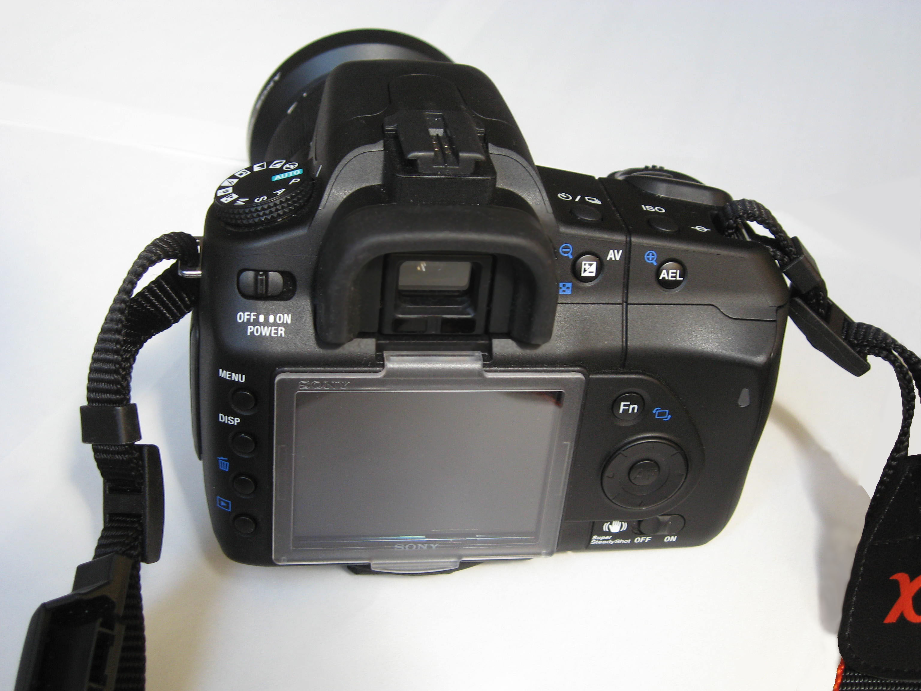 Back of a Sony α 200 dSLR